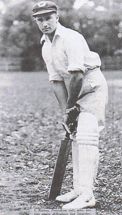 Sid Barnes, Australian cricketer. Aged 16 paying for Petersham